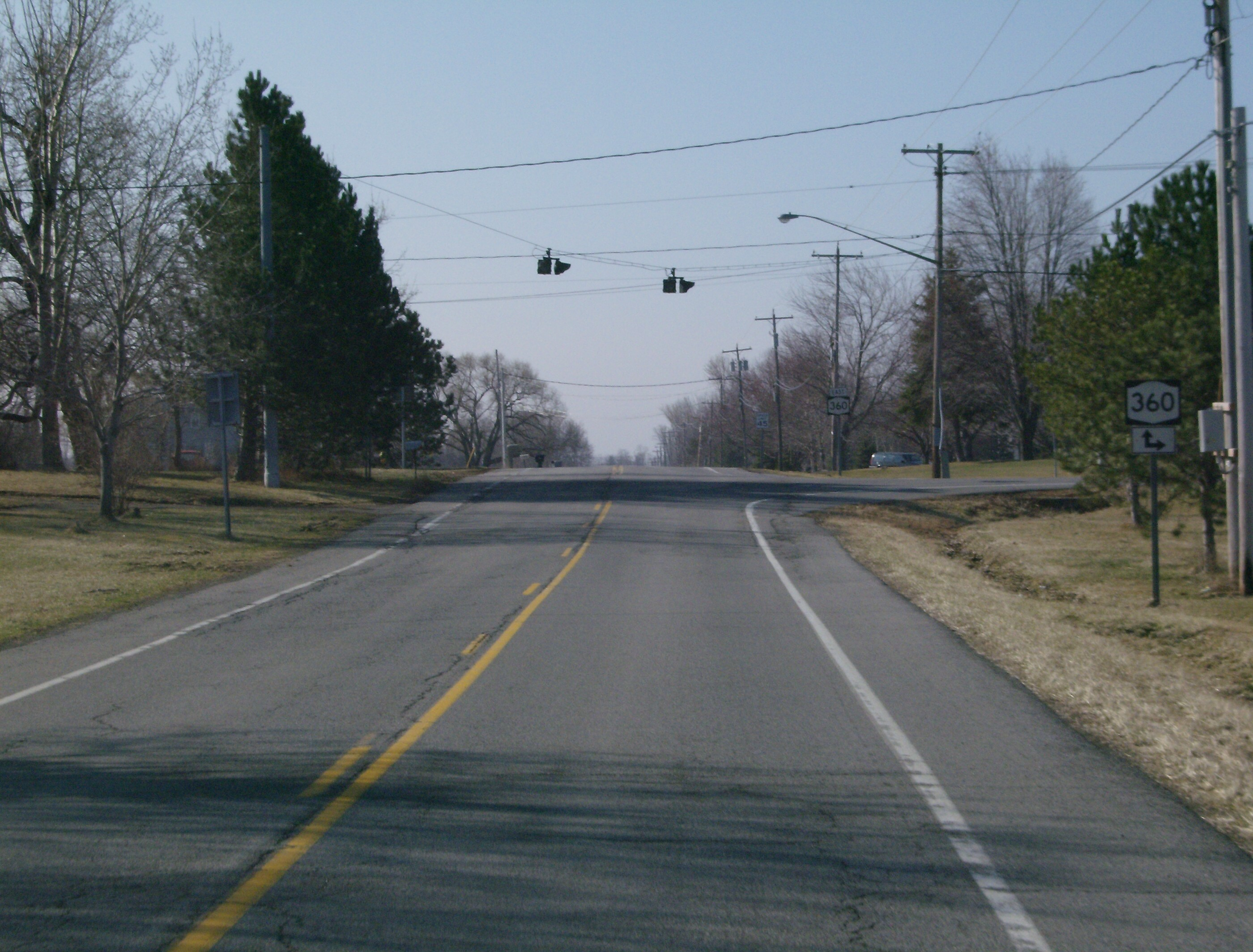 Approaching the now decommissioned New York State Route 360 on Redman Road southbound. This intersection was the southern terminus of New York State Route 215 when it existed from the 1940s to the 1970s.